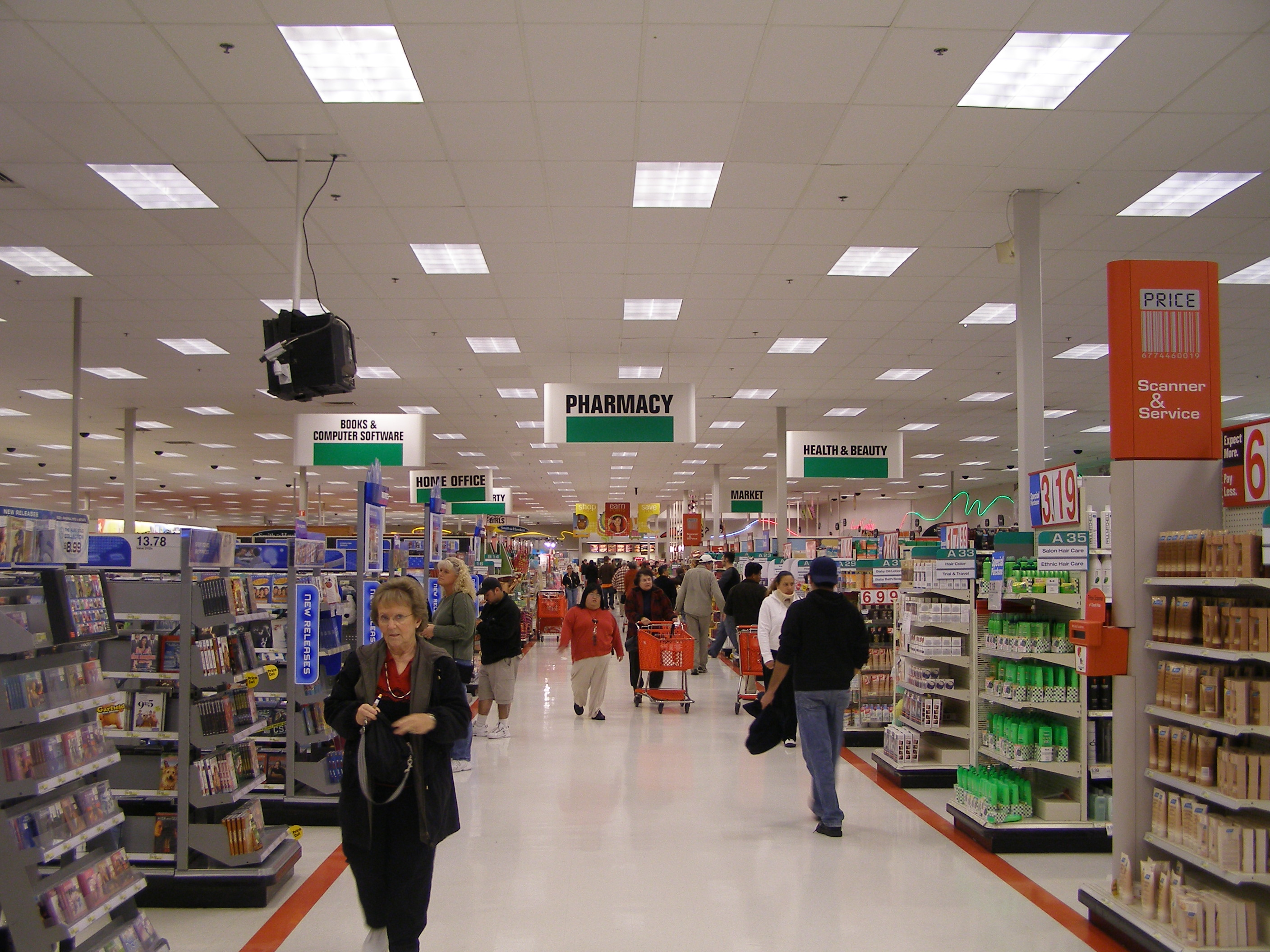 Some big-box retail stores are over-illuminated.